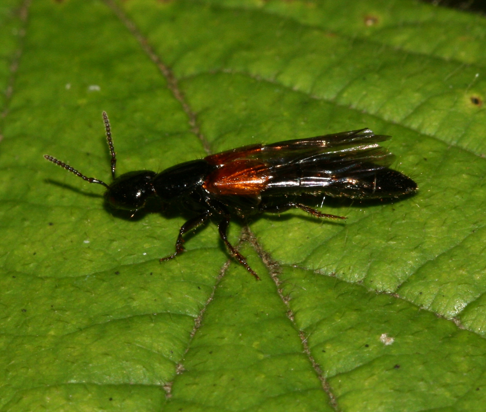 Butterdean Wood, East Lothian, Scotland Thanks to Boris (thaptor) for the id